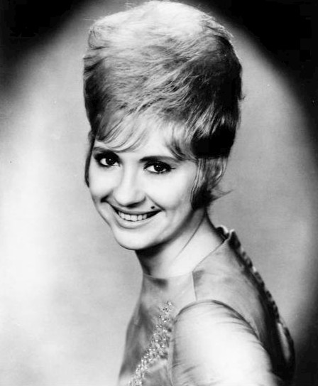 Photo of singer Ruby Wright.